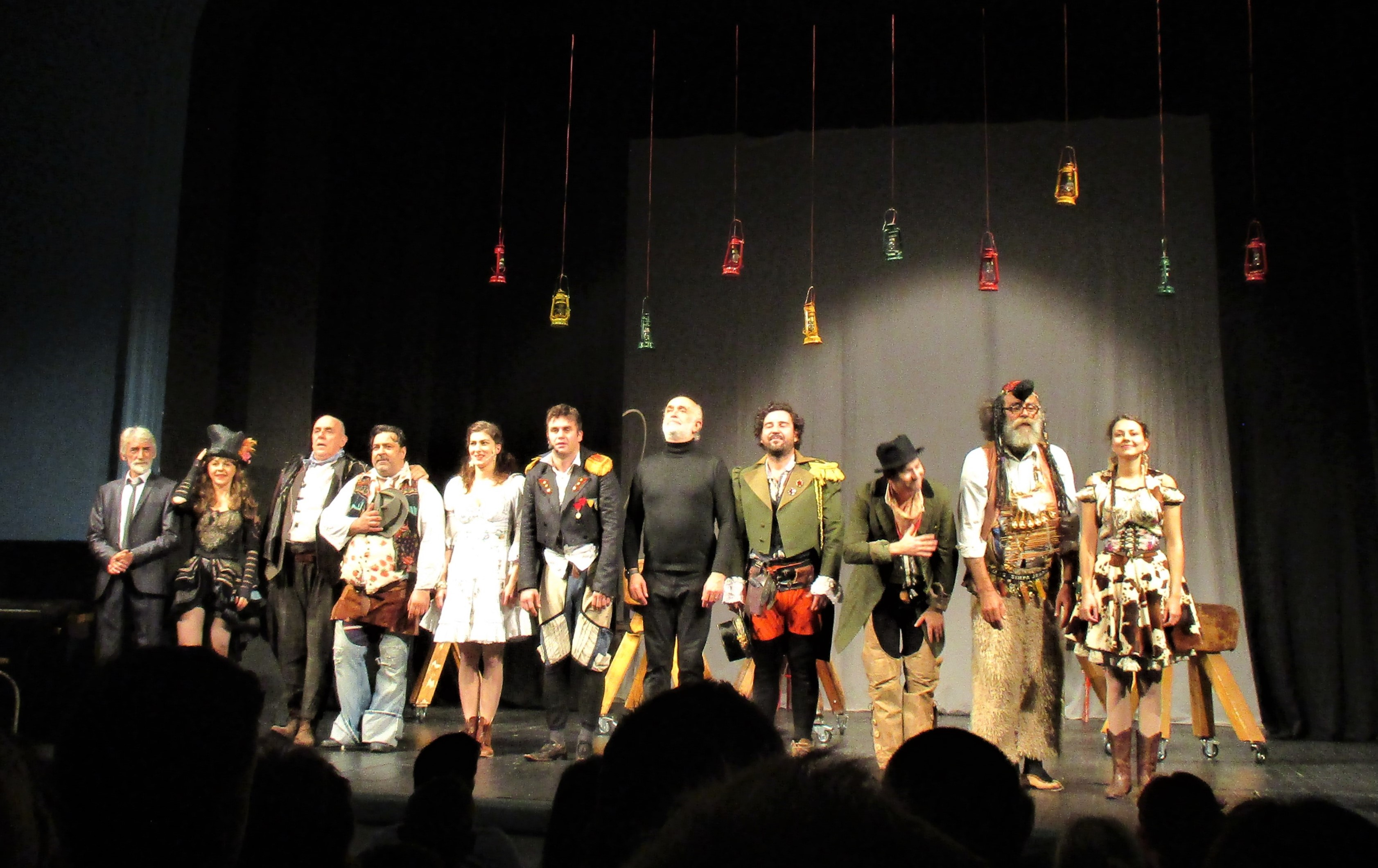 Ensemble of National Theatre in Kikinda after the play Kauboji, November, 2019. Српски (ћирилица): Članovi ansambla kikindskog Narodnog pozorišta, nakon predstave Kauboji, novembar, 2019. S leva na desno: Slavoljub Matić, Gordana Rauški, Branislav Knežević, Marko Gvero, Emina Elor, Đorđe Marković, Dragan Ostojić, Miljan Davidović, Nikola Joksimović, Branislav Čubrilo, Tanja Markov